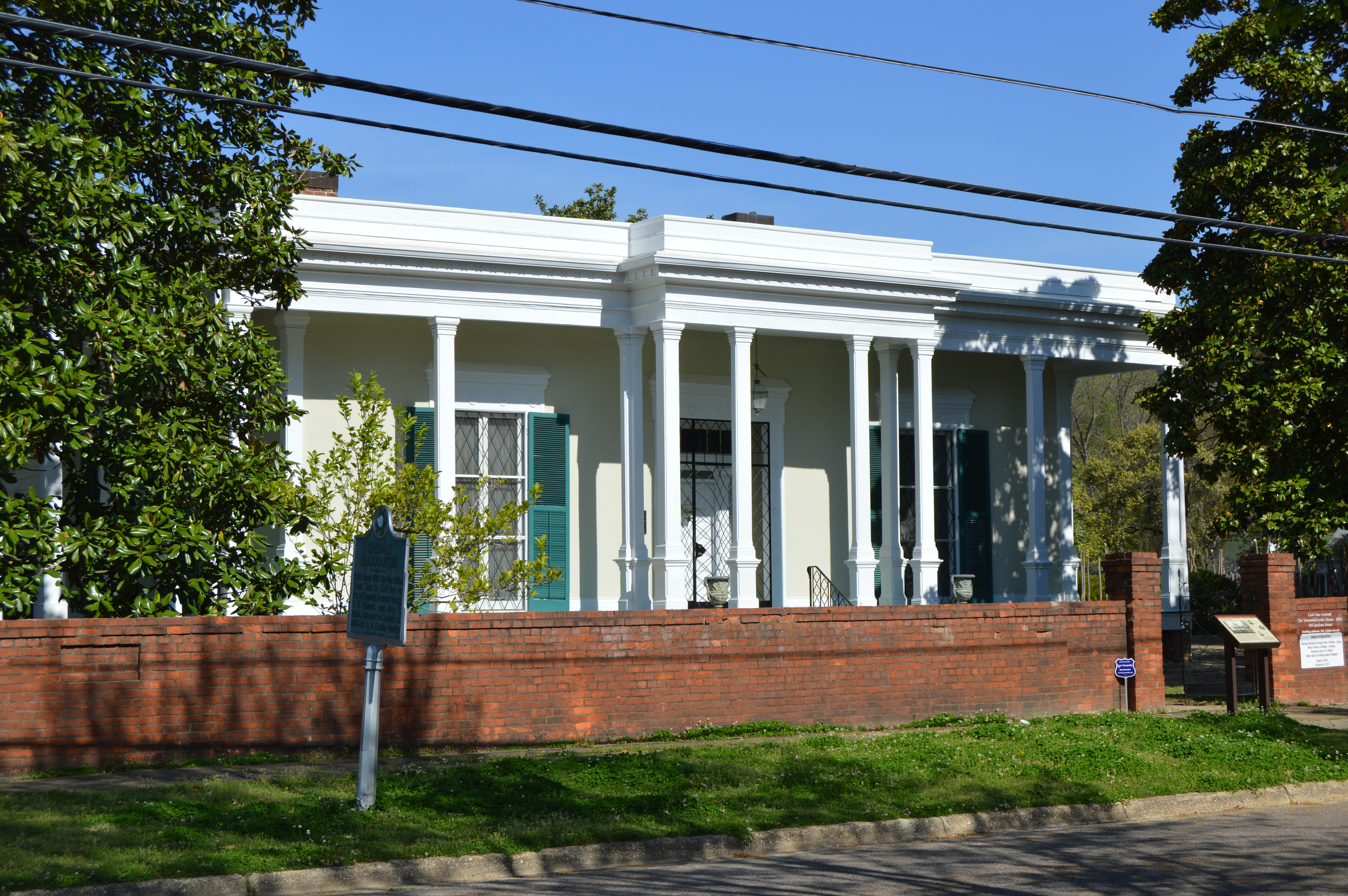 Front of the Veranda House, located at 711 Jackson Street in Corinth, Mississippi, United States. During the various stages of the Siege and Battle of Corinth, this was headquarters for several different generals on both sides. Built in 1857, it is listed on the National Register of Historic Places.